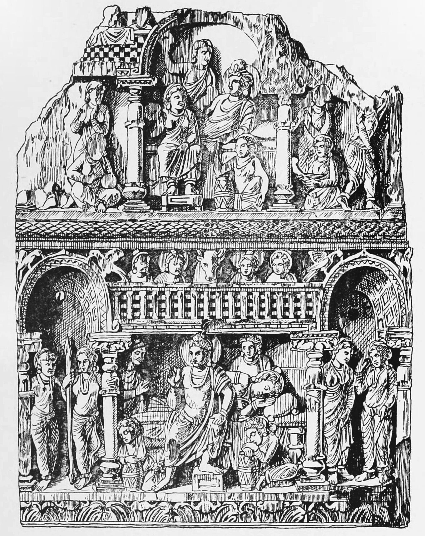 The Great Departure Lahore Museum